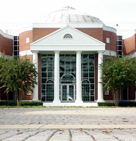 Photo taken by Jenn Greiving in October 2005